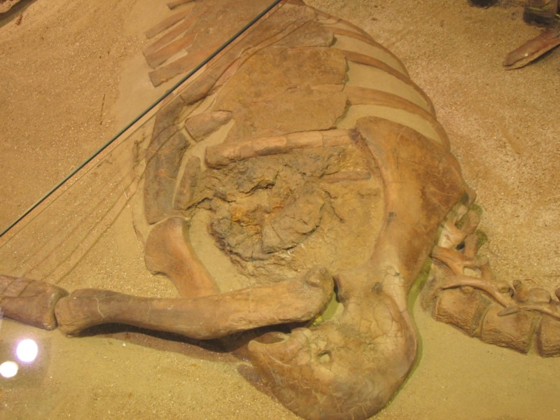 A close-up on the possible heart of "Willo," a specimen of Thescelosaurus, from the North Carolina Museum of Natural Sciences